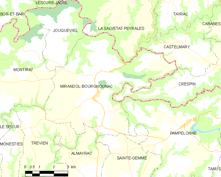 Map of French municipality Mirandol-Bourgnounac